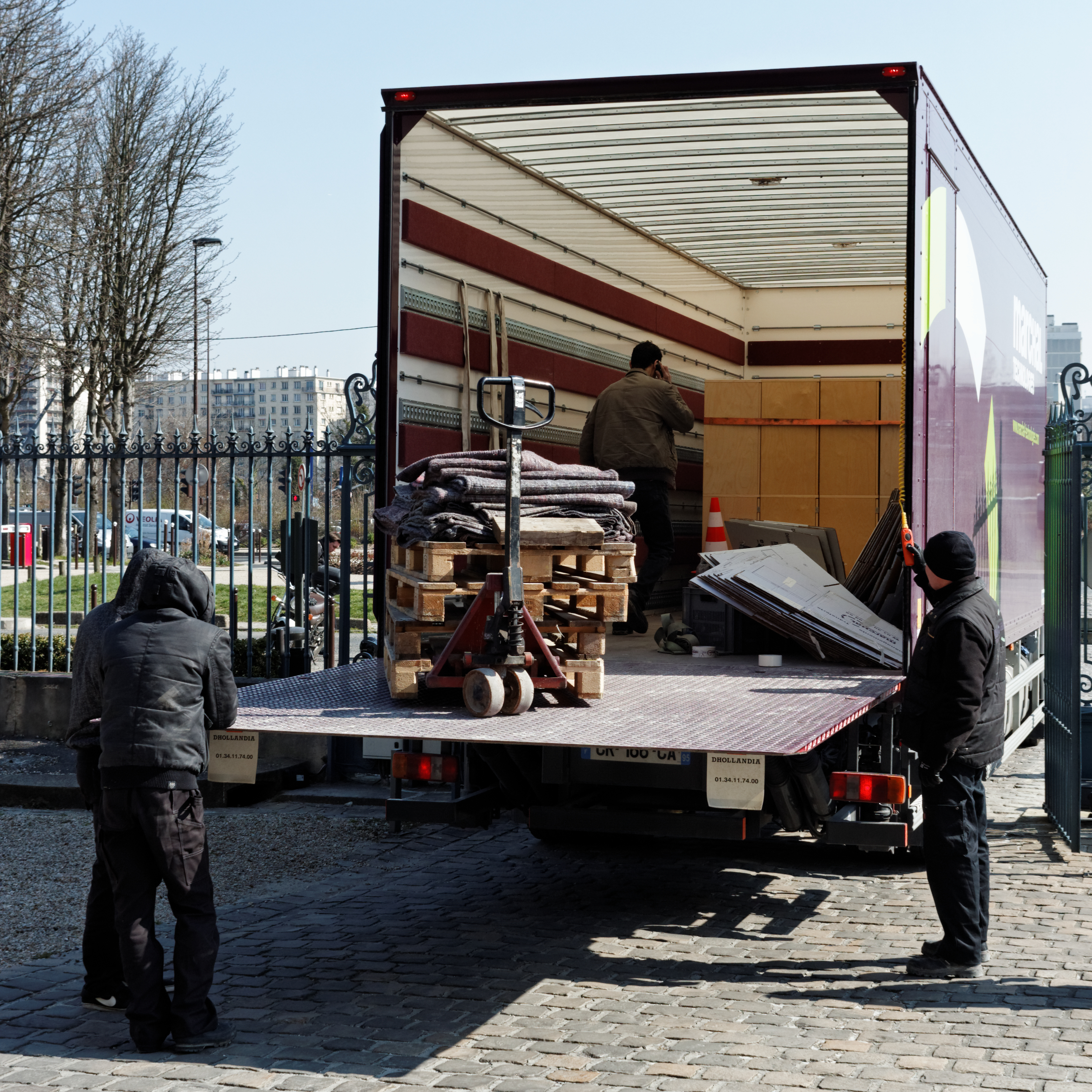 Removal of two Jingdezhen Ceramic vases from the entrance of the National Museum of Ceramics of Sèvres.